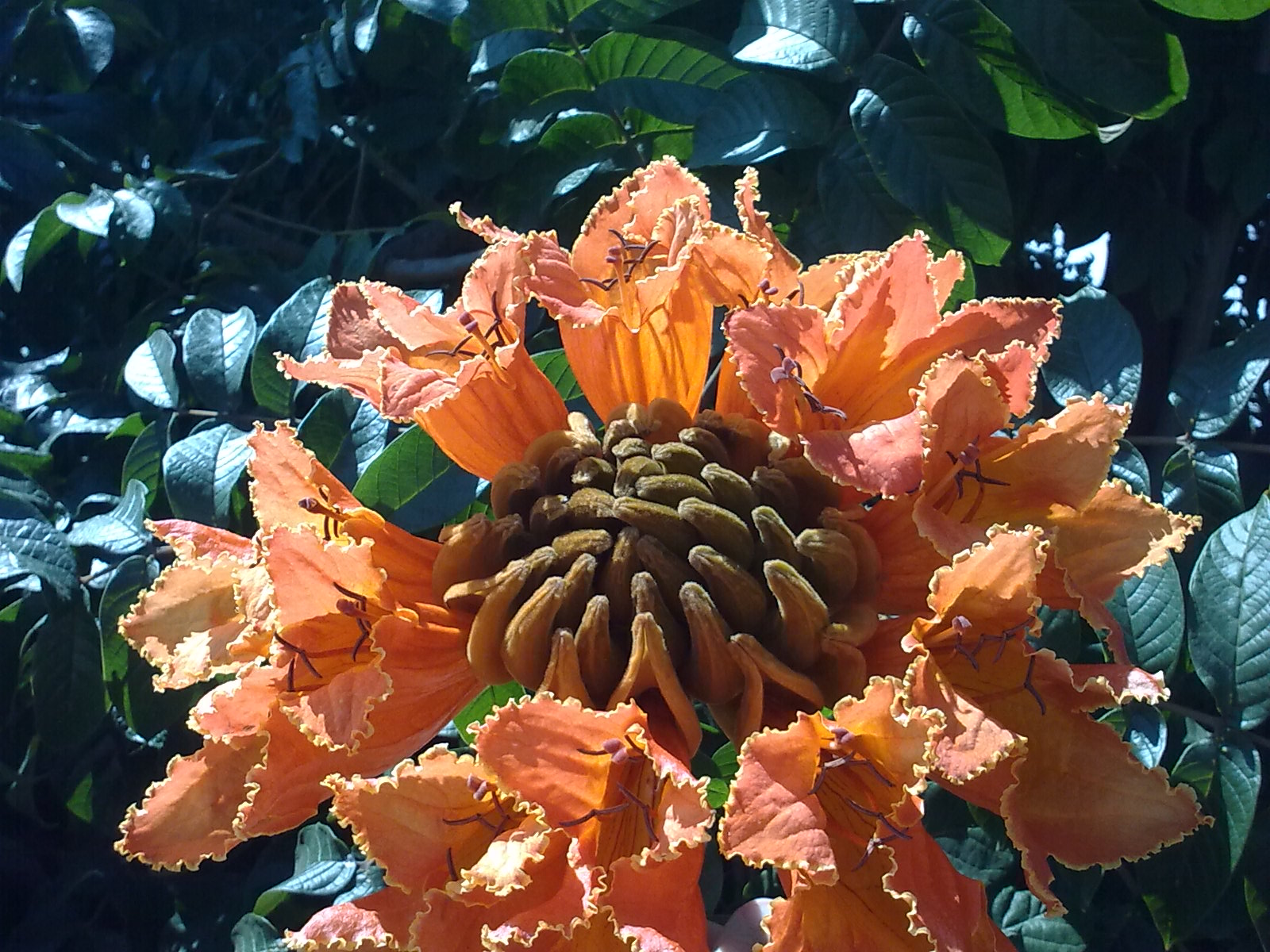 Spathodea campanulata flower, Oaxaca, Mexico